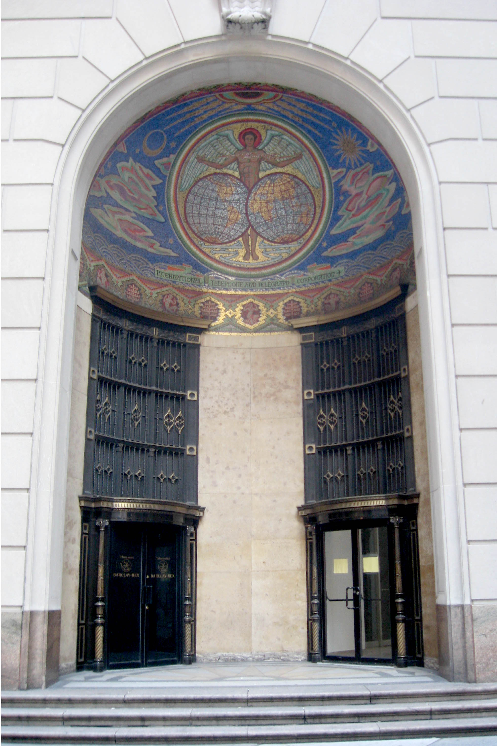 Looking northeast at southwestern corner door of 75 Broad Street at corner of South Williams Street, former headquarters of ITT Corporation, on a cloudy afternoon. See File:Itt75broad.JPG for western side door.